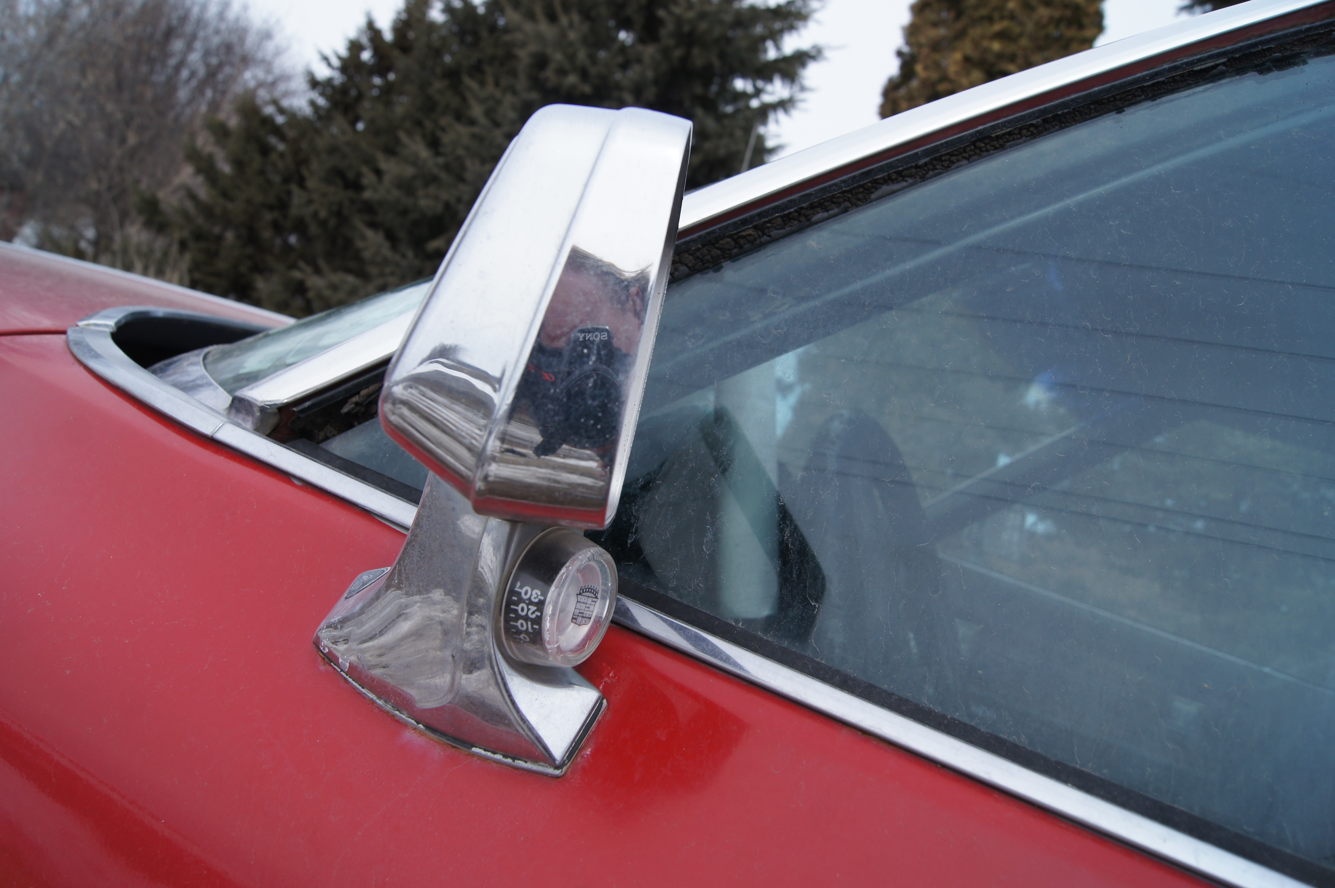 Follow this link for more car pictures